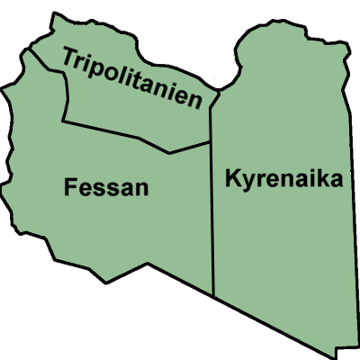 UN trust territory of Libya with its original regional borders between Tripolitania, Fezzan and Cyrenaica 1943-1951 (according to Lothar Rathmann Geschichte der Araber, Volume 5, Berlin 1981)